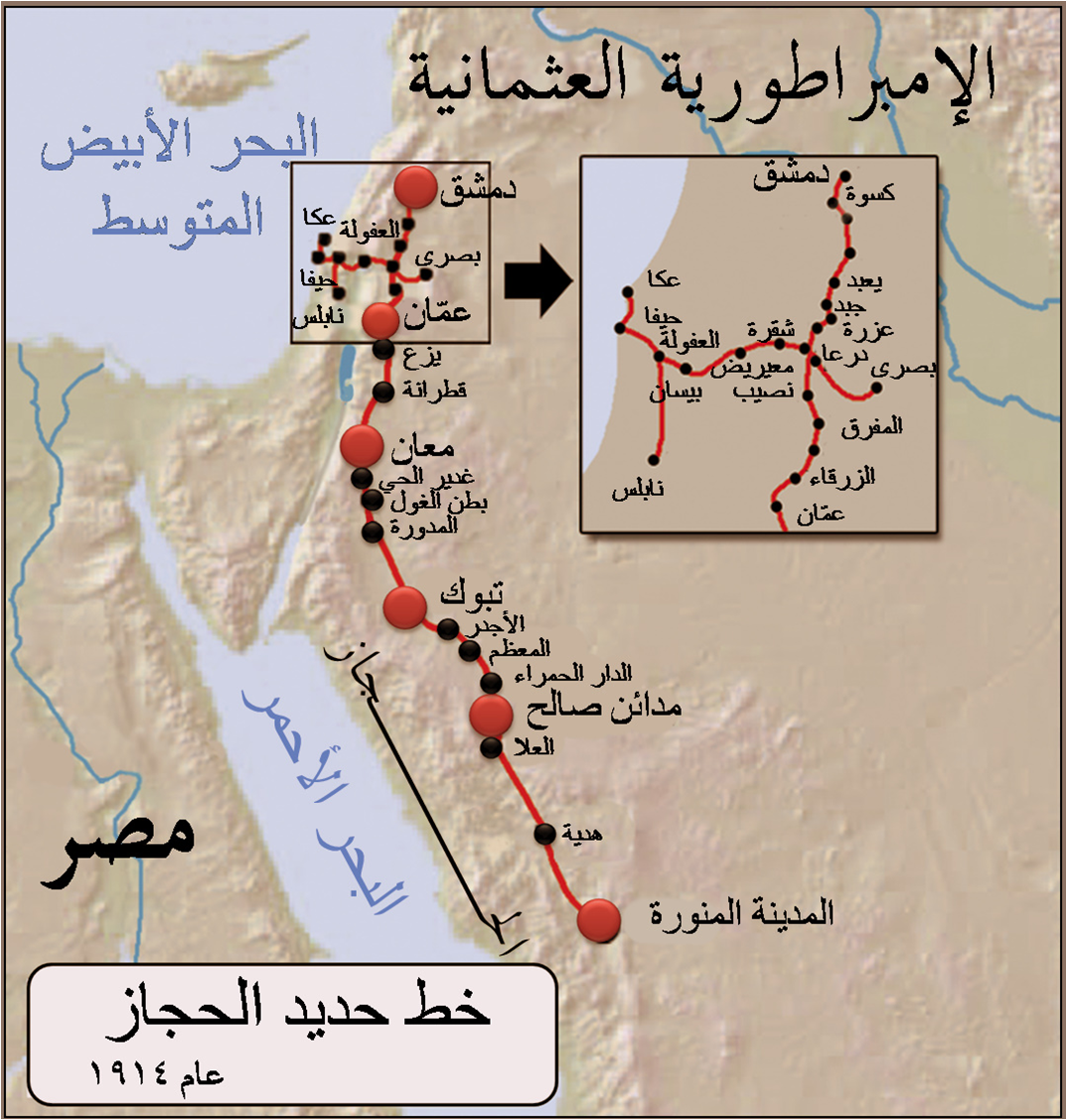 Map of the Hejaz railway (Damascus-Mecca pilgrim route); built at great expense by the Ottoman empire in the early 20th century, but quickly fell into disrepair after the Arab revolt of 1917.